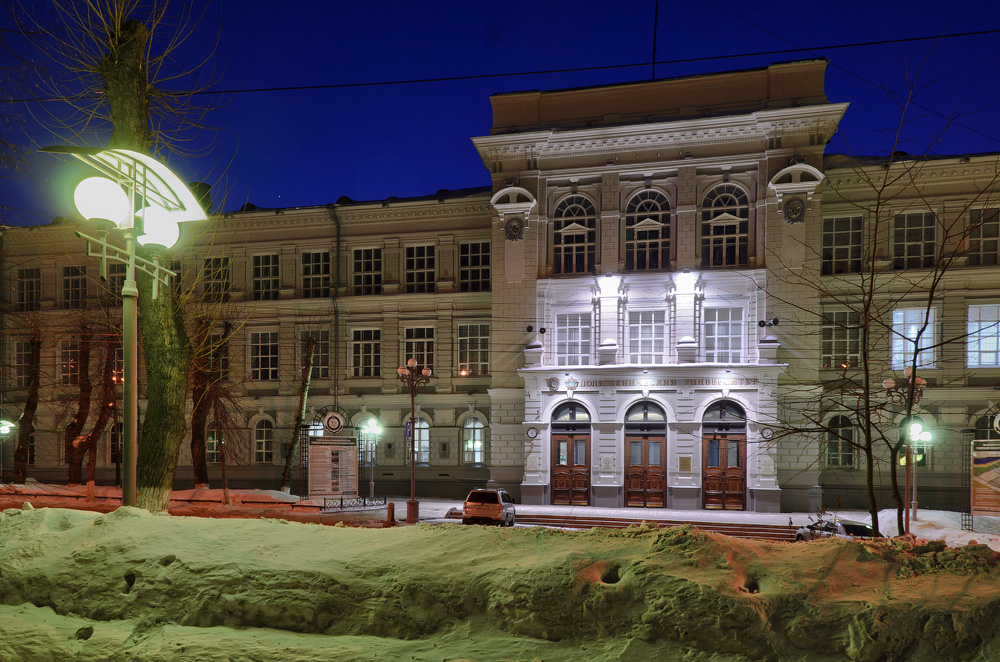 Main building of Tomsk Polytechnic University in Tomsk